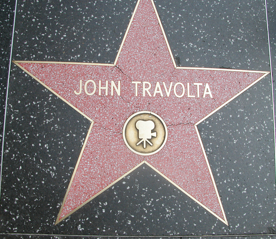 John Travolta's star on the Hollywood Walk of Fame, Los Angeles (California)